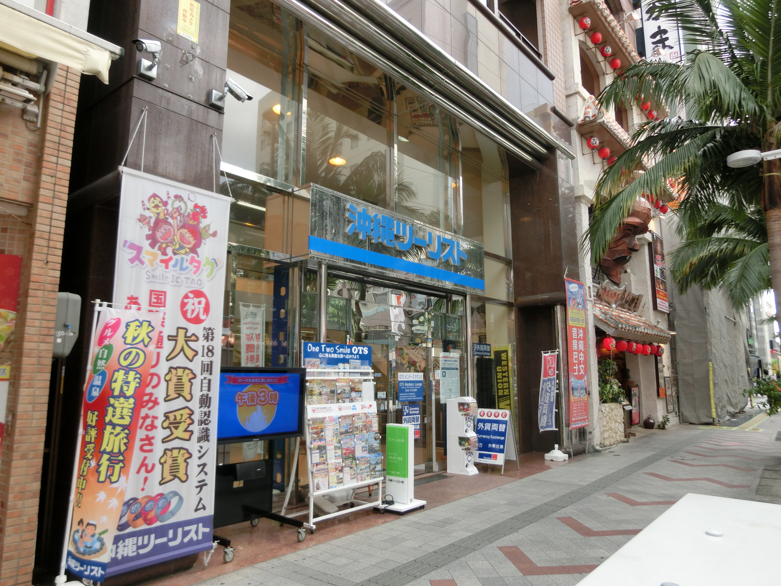 Okinawa Tourist Service Head Office